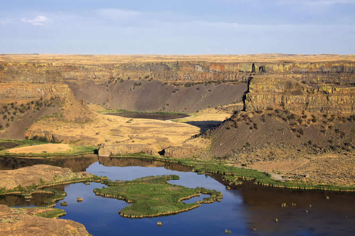 Dry Falls is a 3.5 mile long scalloped precipice in central Washington, on the opposite side of the Upper Grand Coulee from the Columbia River, and at the head of the Lower Grand Coulee. This massive cliff can be viewed from the Dry Falls Interpretive Center, part of Sun Lakes State Park, and located on Route 17 near the town of Coulee City. Photo taken by Steven Pavlov in 2011.